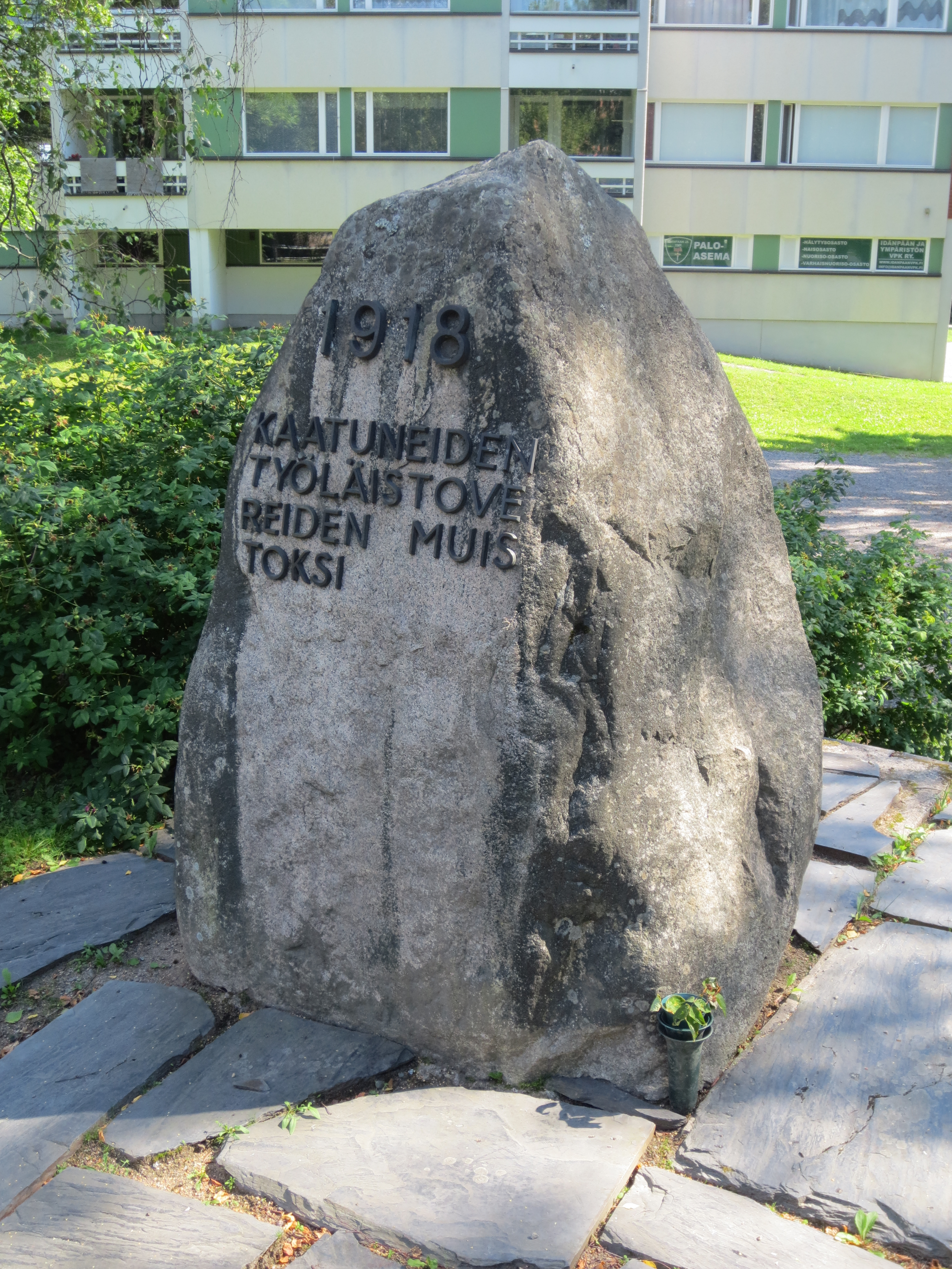 Olavi Sahlberg Finnish Red Guards monument Idänpää Hämeenlinna 1947